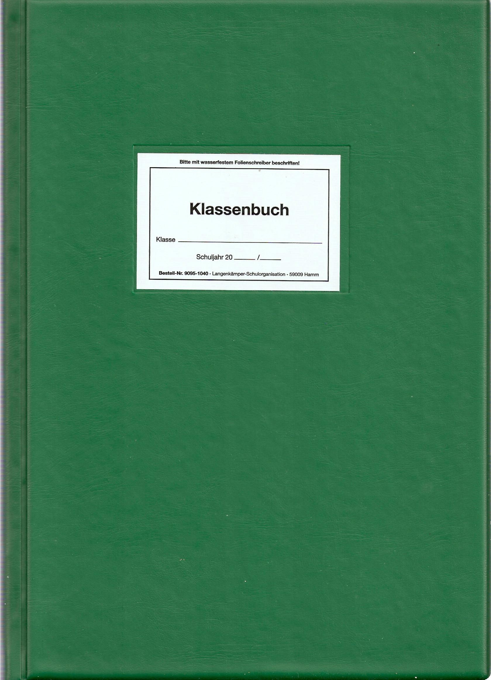 German Register by Langenkämper